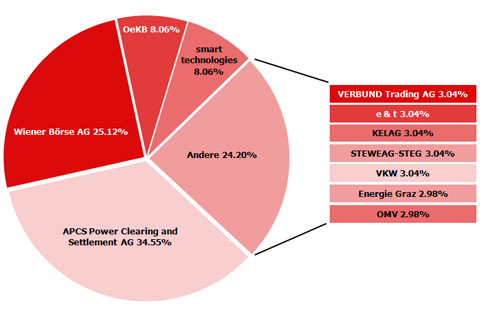 EXAA shareholder structure